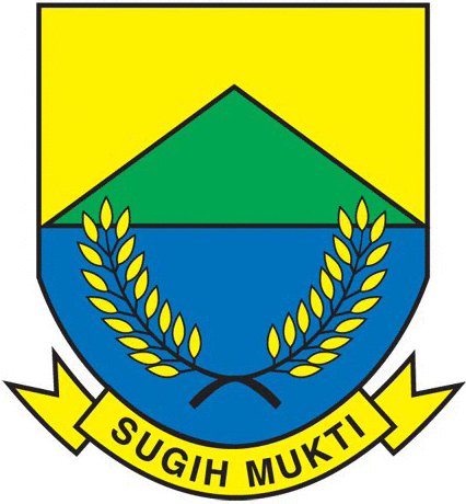 Lambang (Emblem) of Kabupaten (Regency) of Cianjur, provinsi Jawa Barat (West Java Province), Indonesia